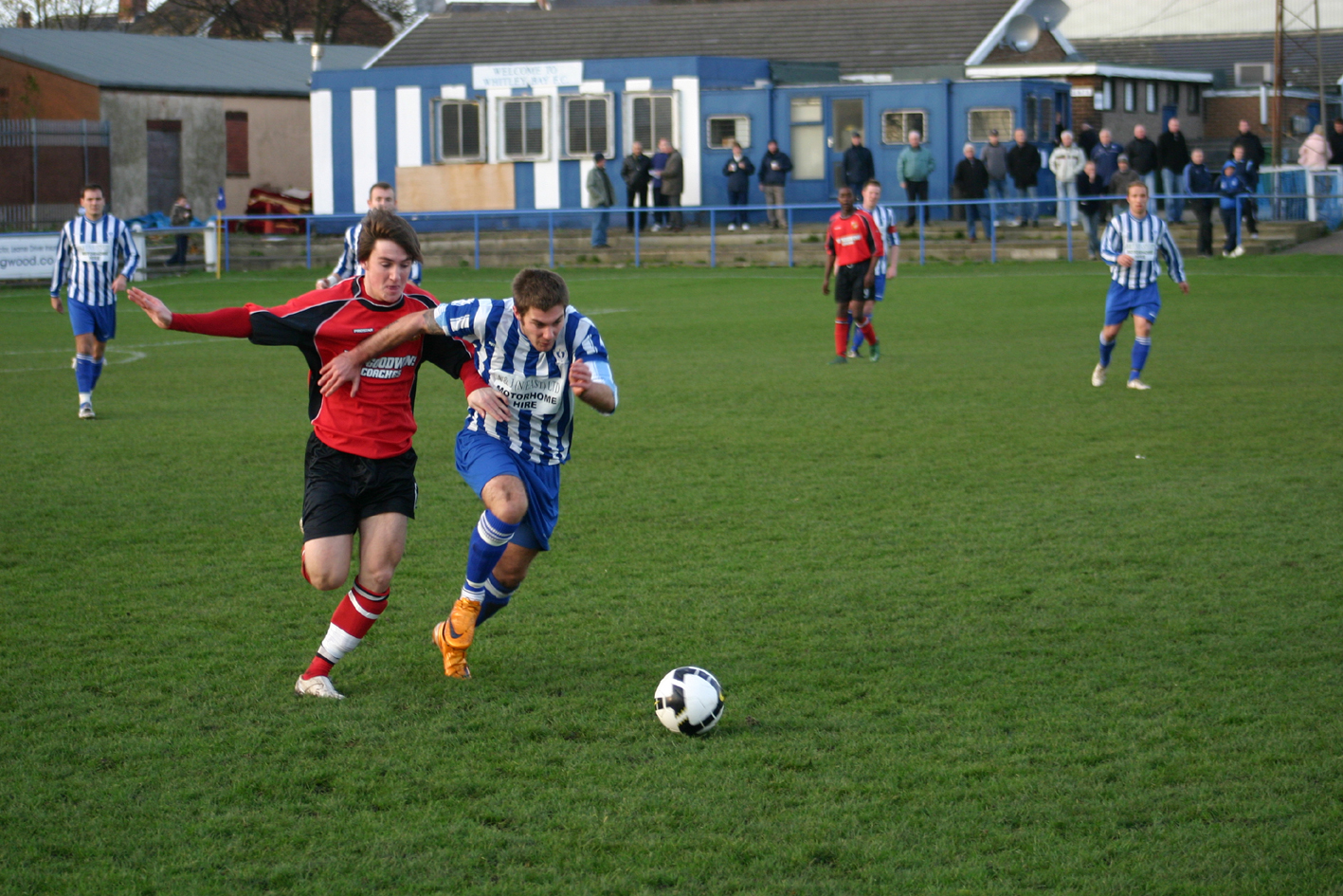 Match action from the FA Vase in 2008. Photo by Flickr user "MCQWEB". original URL